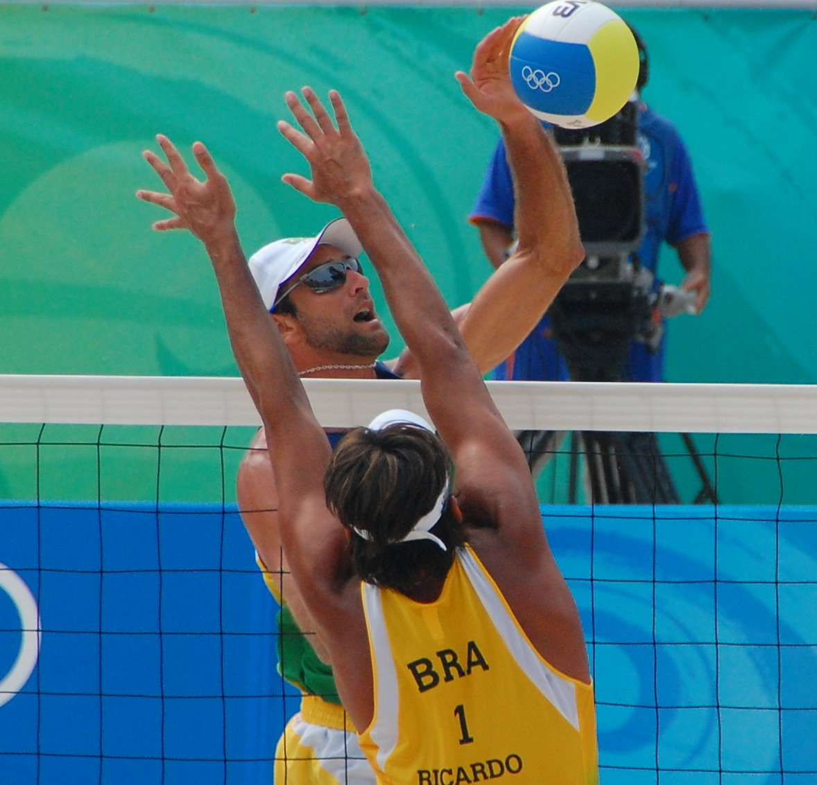 Beijing Olympics, Men's Beach volley, Semi-final: Ricardo Santos (yellow) v. Márcio Araújo (green-1)